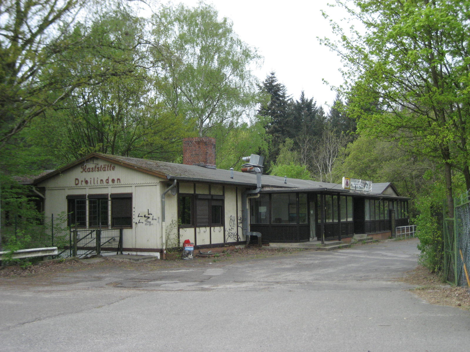 Restaurant of former border crossing (Checkpoint Drewitz-Dreilinden) into West Berlin.